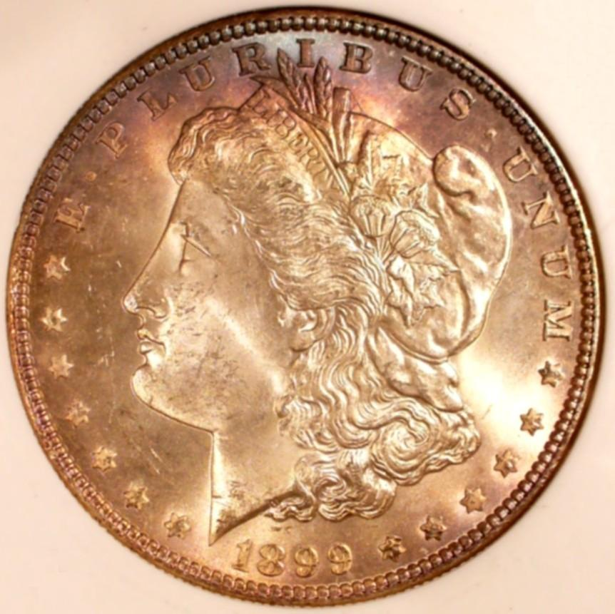 1899 Morgan Silver Dollar obverse